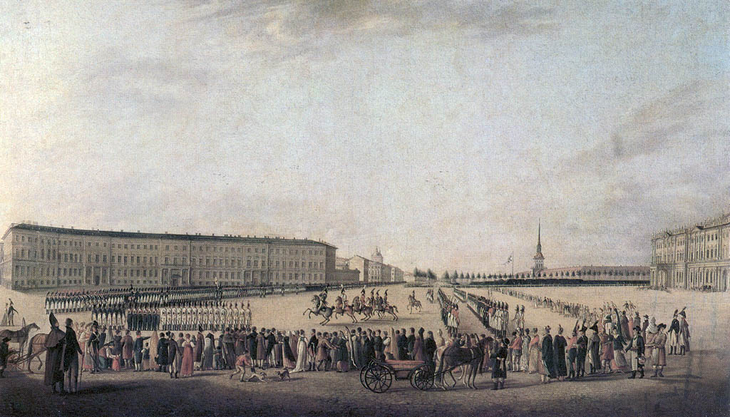 “Guard mounting at the Palace Square”